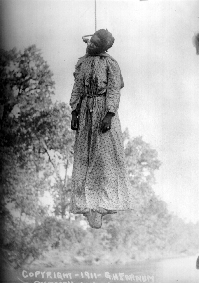 Lynching of Laura Nelson, Okemah, Oklahoma. See Lynching of Laura and Lawrence Nelson